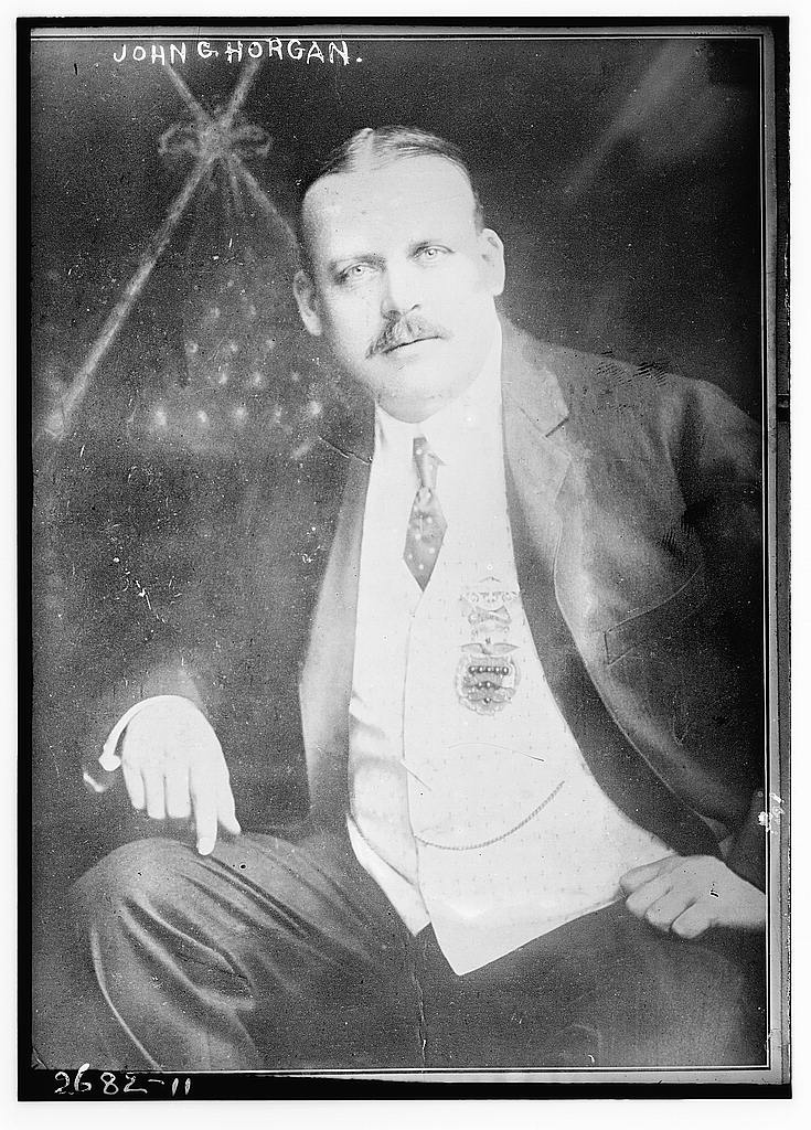 Bain News Service,, publisher. John G. Horgan in 1912 [no date recorded on caption card] 1 negative : glass ; 5 x 7 in. or smaller. Notes: Title from unverified data provided by the Bain News Service on the negatives or caption cards. Forms part of: George Grantham Bain Collection (Library of Congress). Format: Glass negatives. Repository: Library of Congress, Prints and Photographs Division, Washington, D.C. 20540 USA, General information about the Bain Collection is available at Persistent URL: Call Number: LC-B2- 2682-11